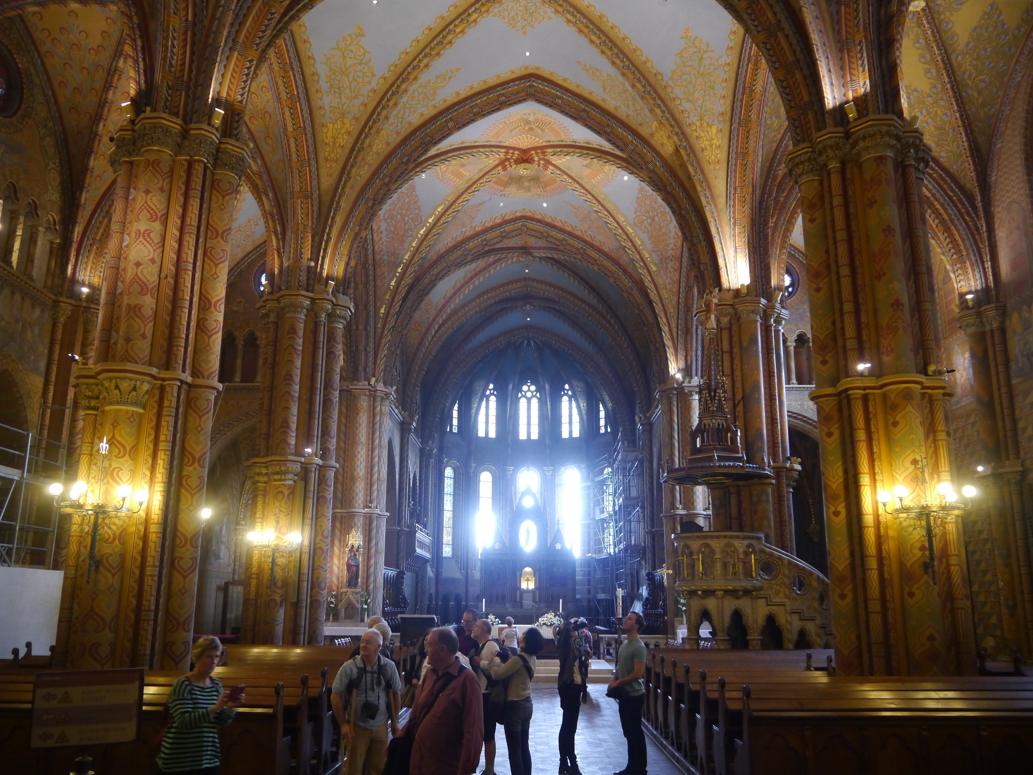 Nave of Matthias Church, Budapest, Northern Hungary